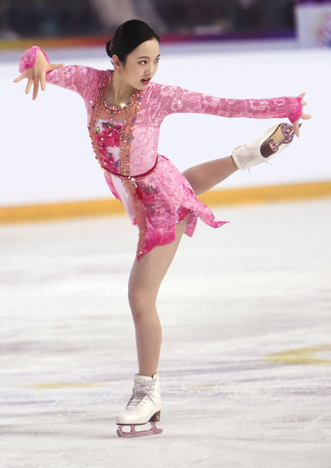 Marin Honda during the Ladies Free Skating at the Internationaux de France de Patinage 2018.